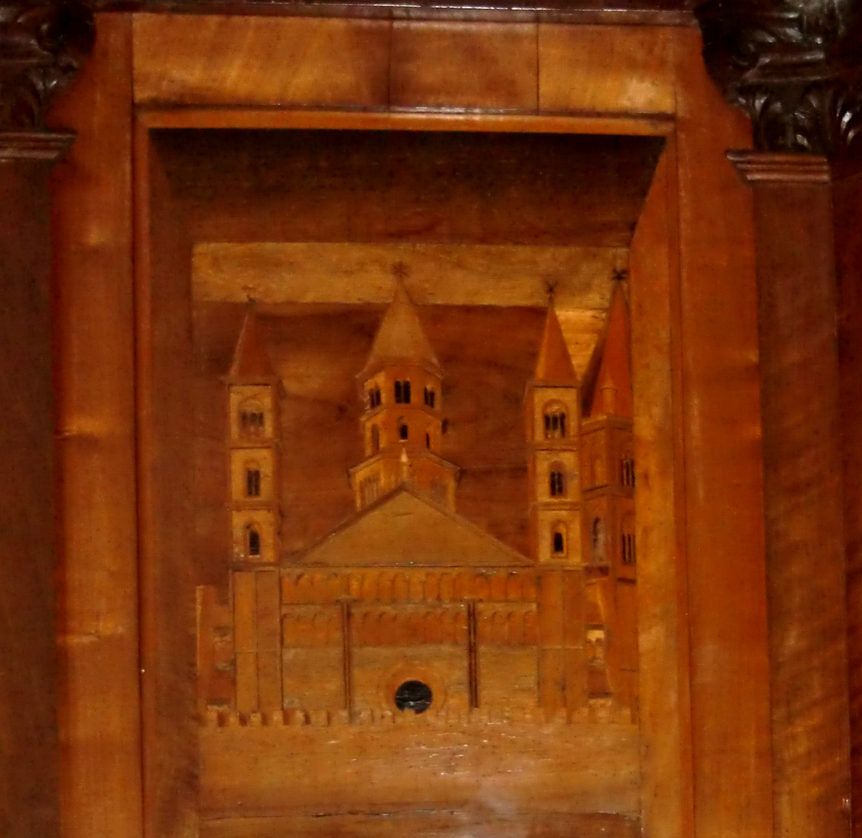 Vercelli, Cathedral of Sant'Andrea, Paolo Sacca, Choir stalls, 1511